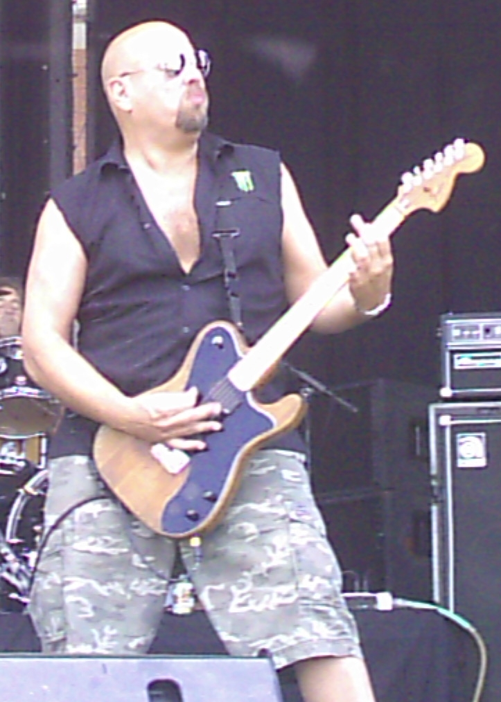 Kurdt Vanderhoof performing at Gernika's Metalway Festival 2006 (Spain) with his band Metal Church. Contact O_Menda if you want the original image or any other to improve it.